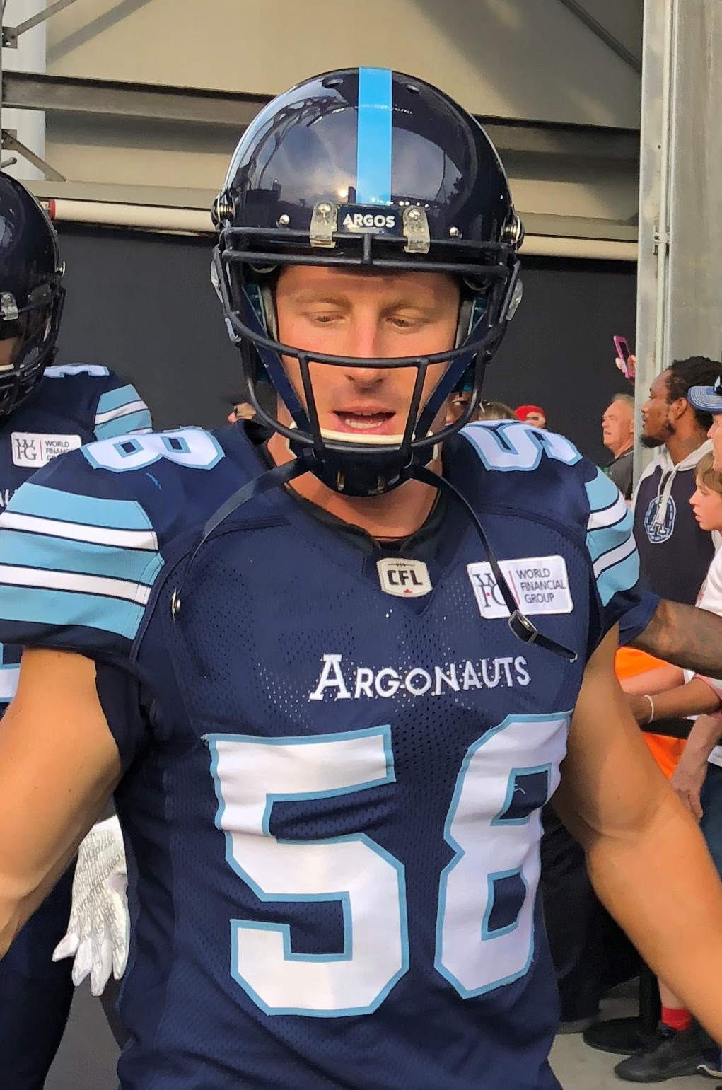 Jake Reinhart, Longsnapper for the Toronto Argonauts.